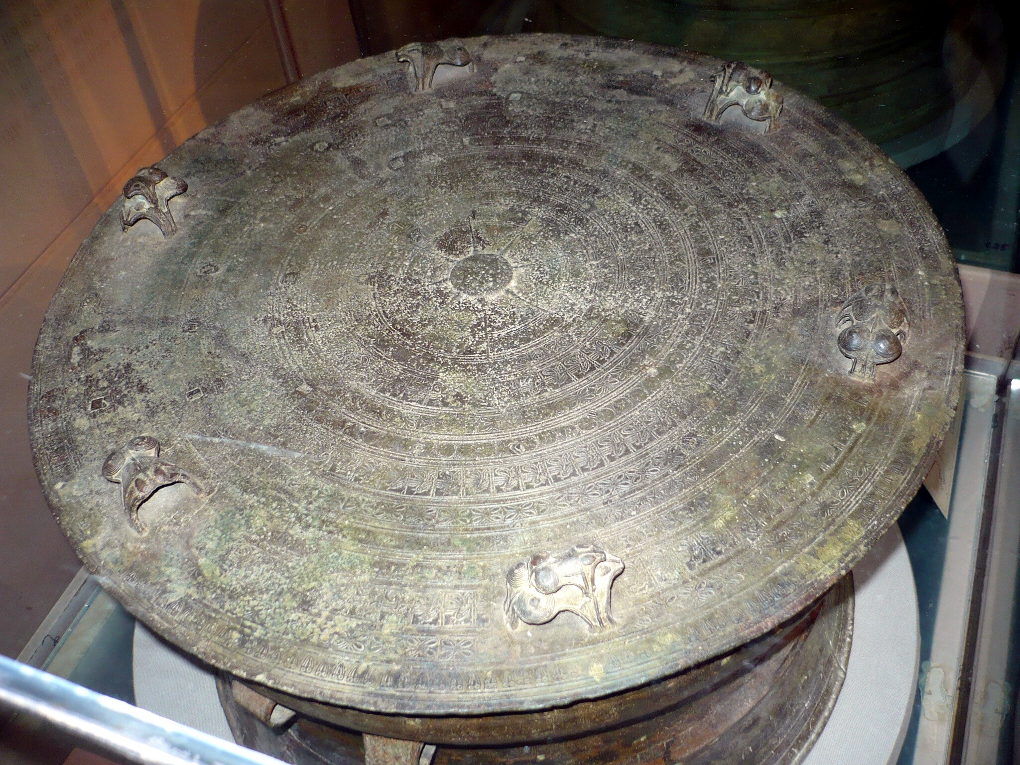 LẠNG SƠN BRONZE DRUM (TYPE II - HEGER) Lạng Sơn Province h: 35.5cm, d: 58.7cm